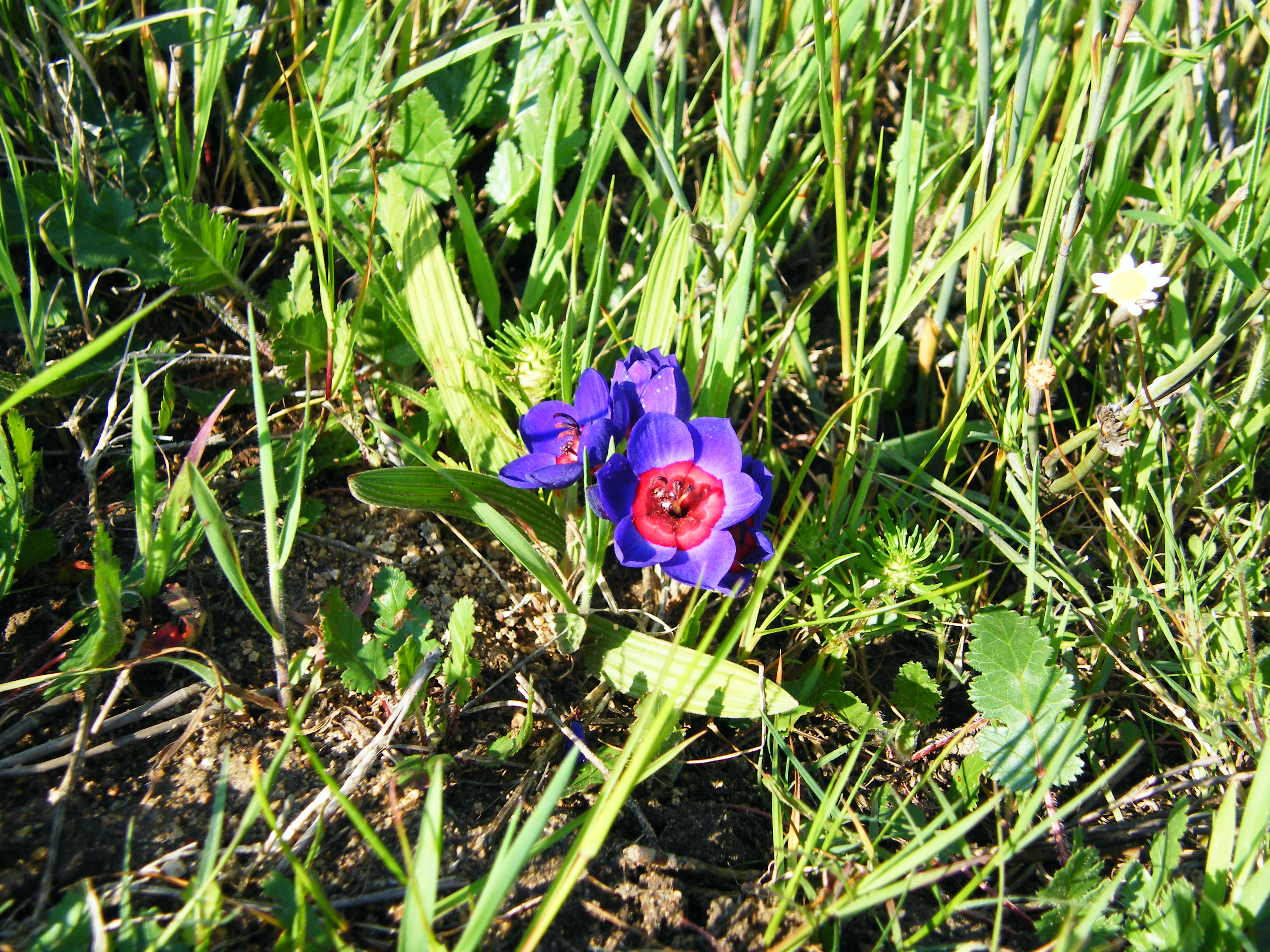 Wine cup